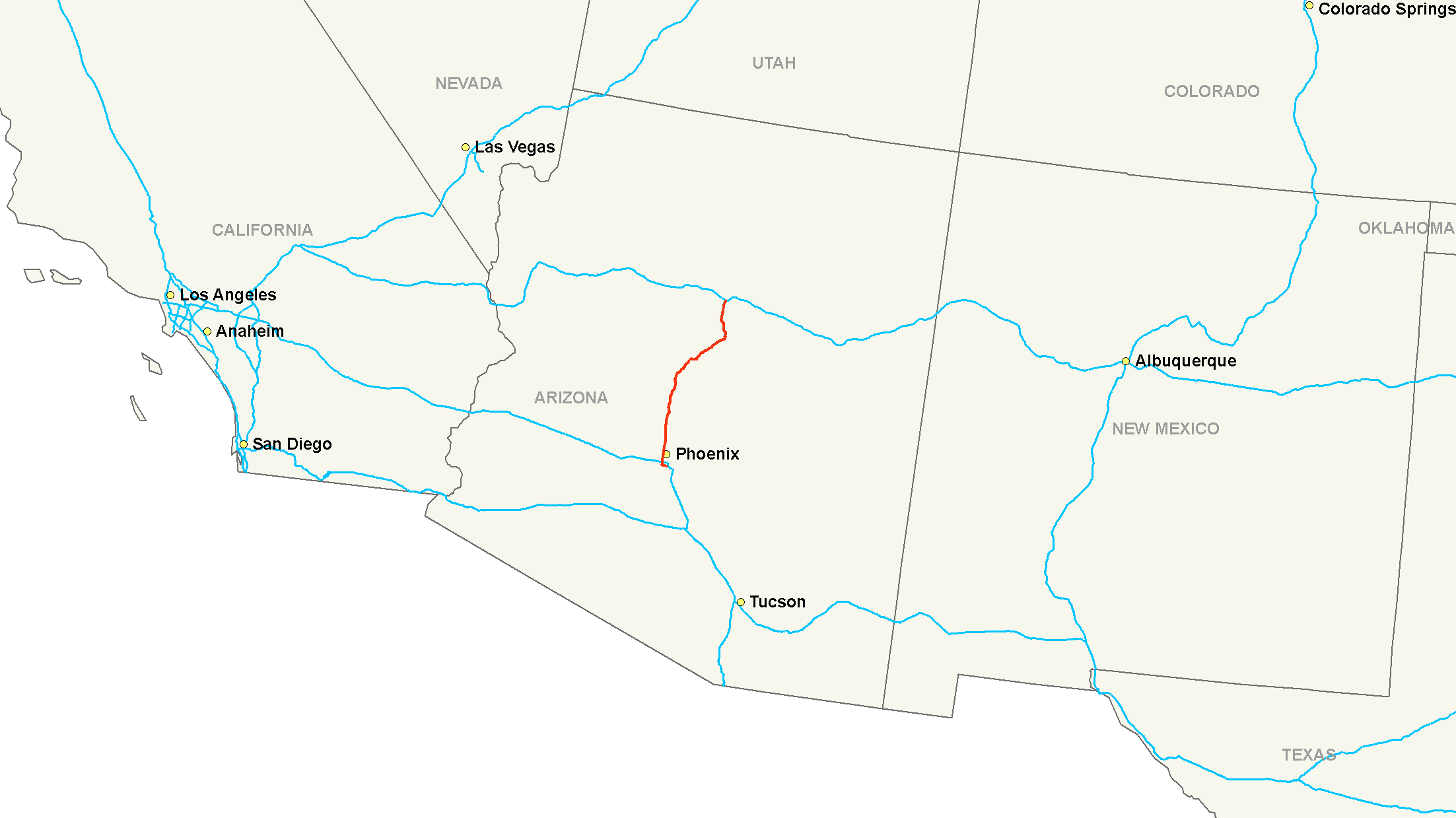 Map of Interstate 17